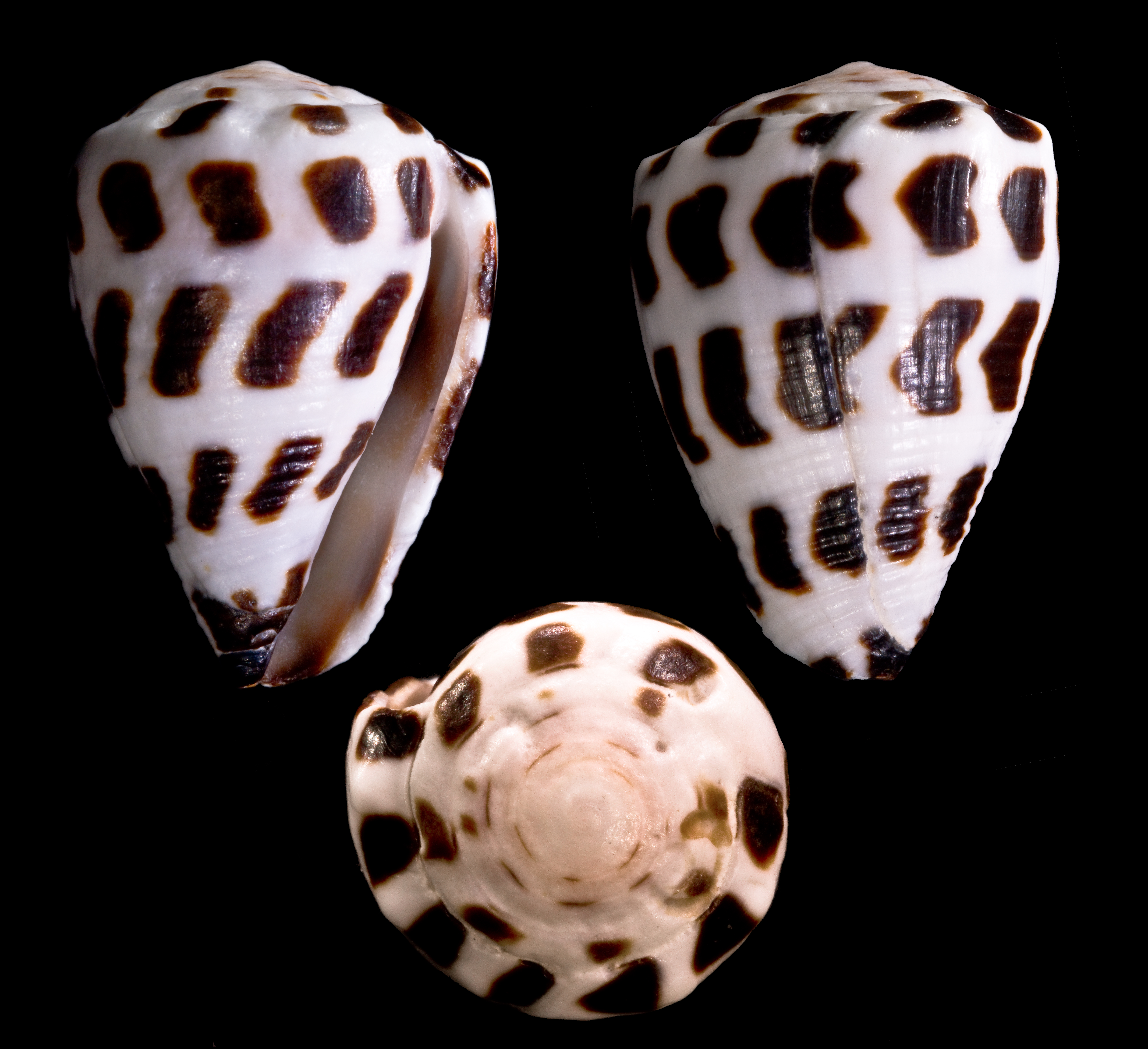 Conus ebraeus - Front and side face from the same specimen - conicidae - 3cm